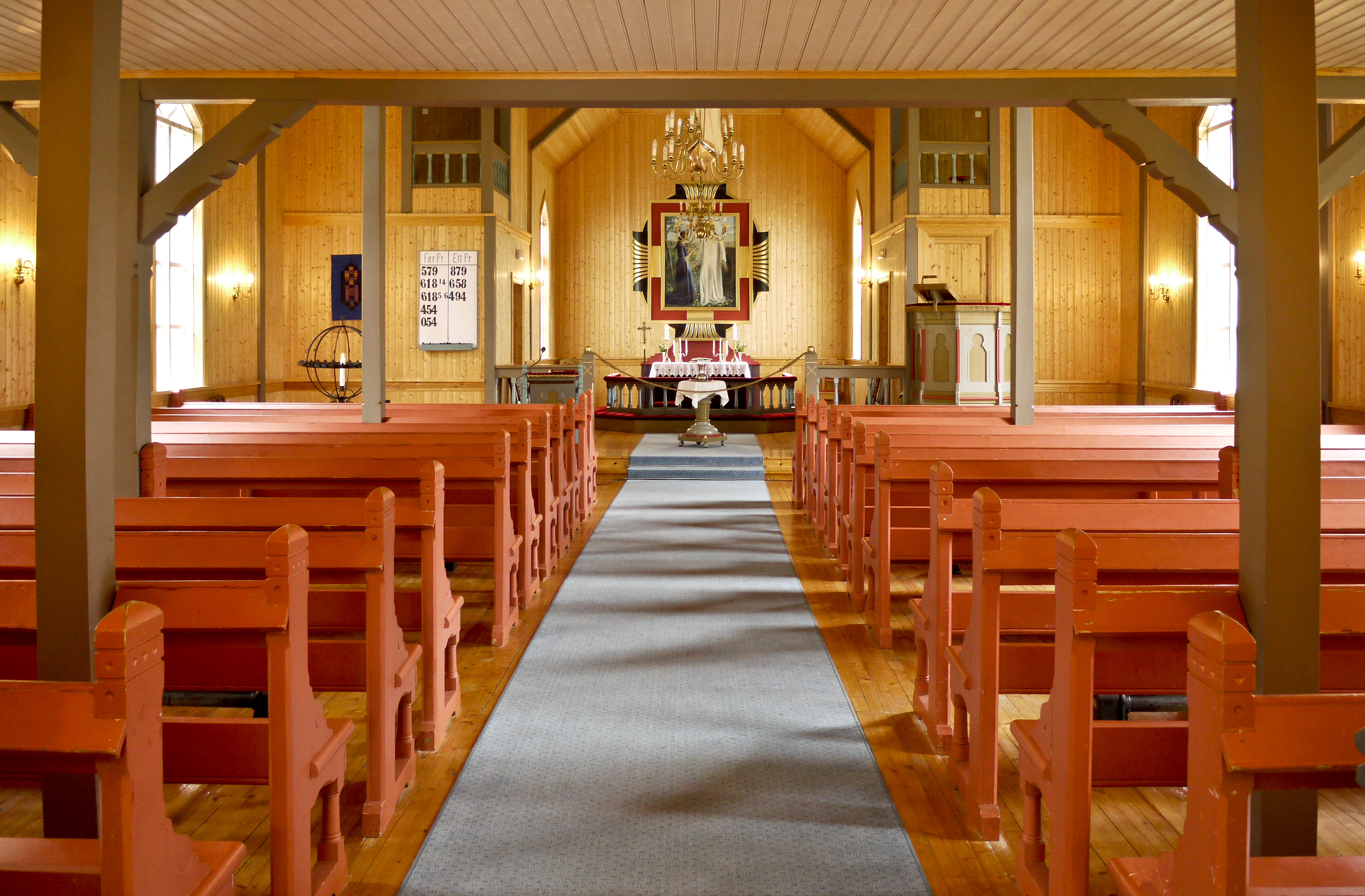 Misvær church/kirke, Norway. Nave.